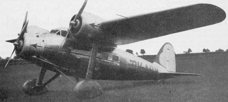 Avia 51 photo from L'Aerophile December 1933